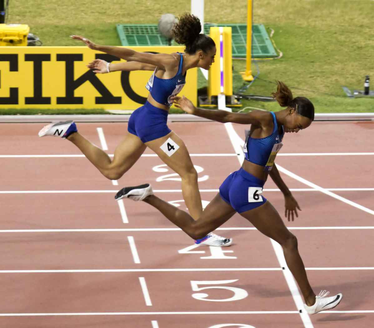 Dalilah Muhammad (gold) and Sydney McLaughlin (silver) in the finish crossing line in the final of the women's 400 metres hurdles at the 2019 World Athletics Championships.